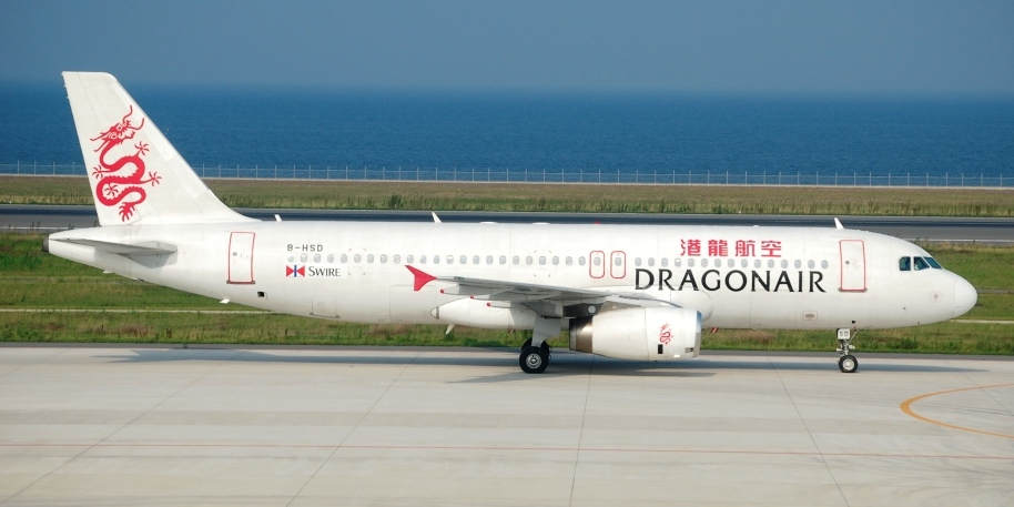 Photographer:Cipher01(Uploader) Location:Kitakyushu Airport